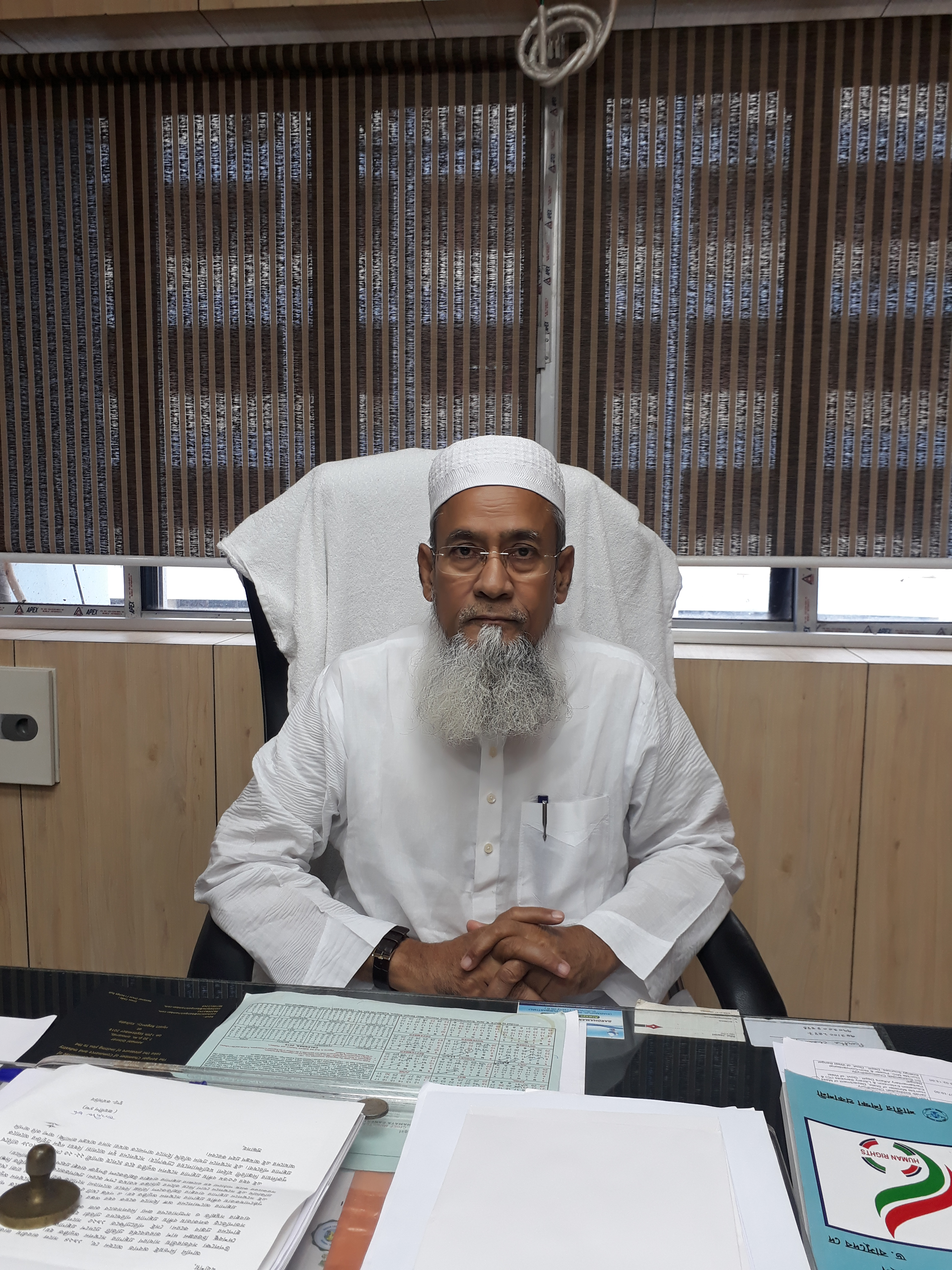 Mass Education Minister in Charge, Siddiqullah Choudhury, All India Trinamool Congress leader